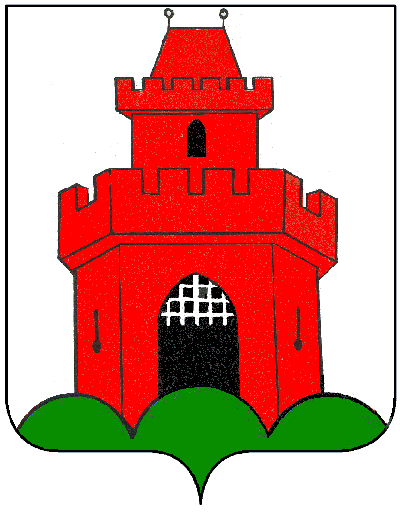 Coat of arms of the municipality of Bruneck, South Tyrol.